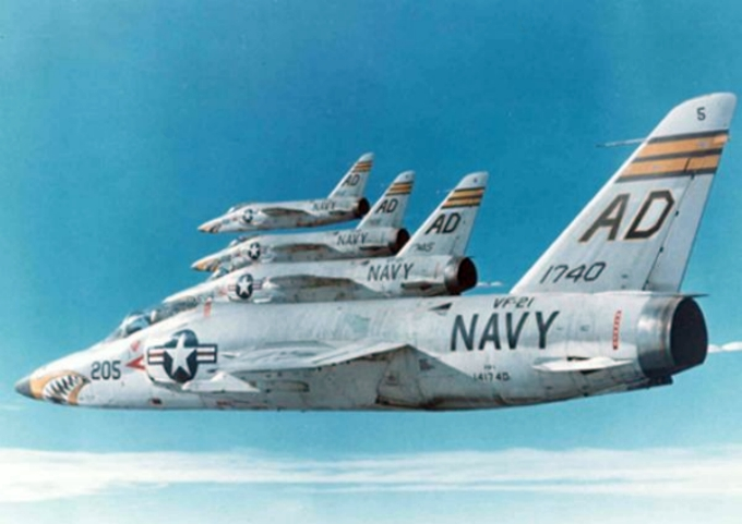 Four Grumman F11F-1 Tiger fighters of fighter squadron VF-21 Mach Busters. Nearest to the camera are aircraft BuNos 141740 and 141745. On 1 July 1959 VF-21 was redesignated VA-43 Challengers and became a fleet replacement squadron with the tail code "AD". Note the obviously currently repainted letter "D" on the tail of aircraft BuNo 141740. VF-21 had had the tail code "AF" previously. Therefore the photo may have been taken around the time of the redesignation.